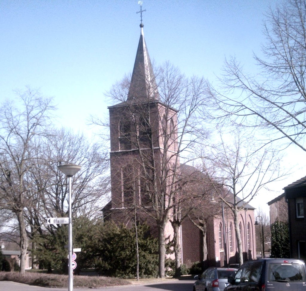 Saint Helena Church in Helenabrunn, Viersen, Germany.